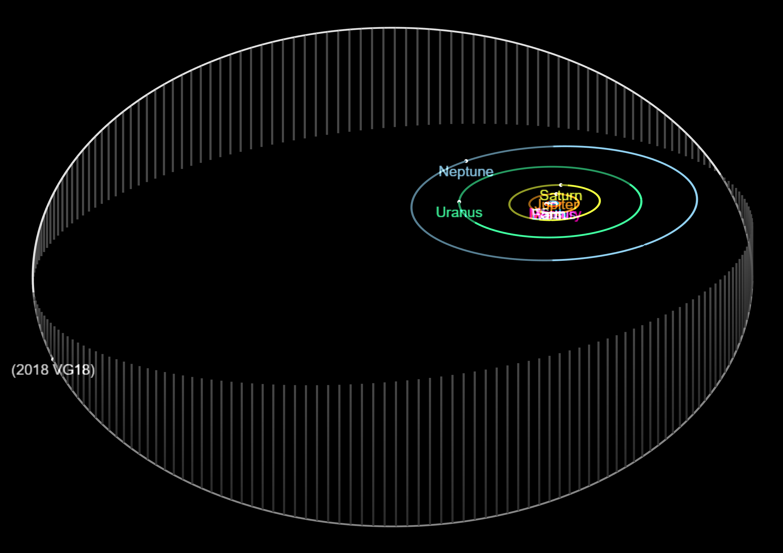 JPL Small-Body Database Browser (2018 VG18) Classification: TransNeptunian Object SPK-ID: 3836918